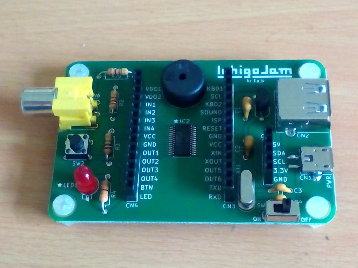 The original posting page. I'm the operator of this web. This page specifies the CC BY 4.0 license for the image